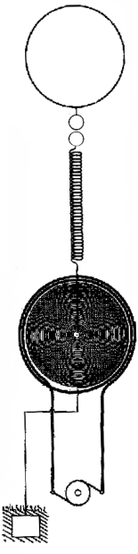 Diagram by Nikola Tesla of a Tesla coil circuit similar to his "magnifying transmitter" which he used to create very high voltages at his Colorado Springs laboratory 1900-1901. It shows an air-core resonant transformer (spiral coils) with its primary driven by an alternating current generator. The high voltage secondary is grounded at one end, and the other end drives a third coil (long thin helix, center), not magnetically coupled to the others, which Tesla called the the "extra coil", generating high voltage. This is connected through a spark gap with an elevated metal ball capacitive electrode (top), which is the high voltage terminal. Except for the addition of the spark gap, this is identical to the circuit shown in Tesla's US patent No. 1119732A Apparatus for transmitting electrical energy, filed January 18, 1902, granted December 1, 1914, his "magnifying transmitter" patent which was the design used in his Colorado Springs transmitter. Tesla used this coil in experiments to try to achieve long distance wireless power transmission. This also may be the circuit used in his Wardenclyffe tower prototype transatlantic wireless telegraphy transmitter and wireless power station built in 1901 at Shoreham on Long Island. The common type of Tesla coil circuit, which Tesla patented in 1891, has only two coils, making up a resonant transformer, with the high voltage output taken from the secondary. The magnifying transmitter, which Tesla invented around 1896, adds the third coil, which generates additional high voltage by resonating with its own parasitic capacitance either at the same frequency as the primary and secondary, or at the second harmonic.